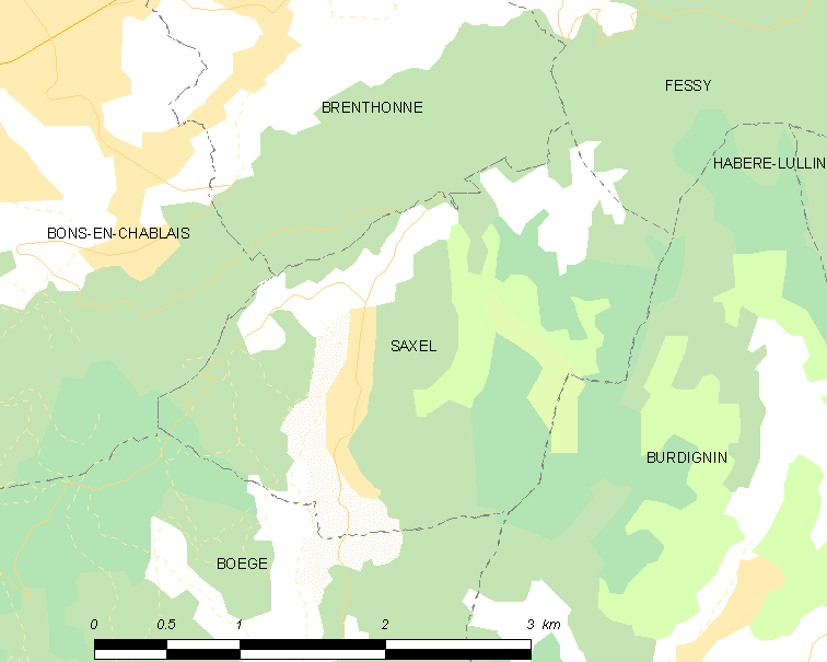 Map of French municipality Saxel